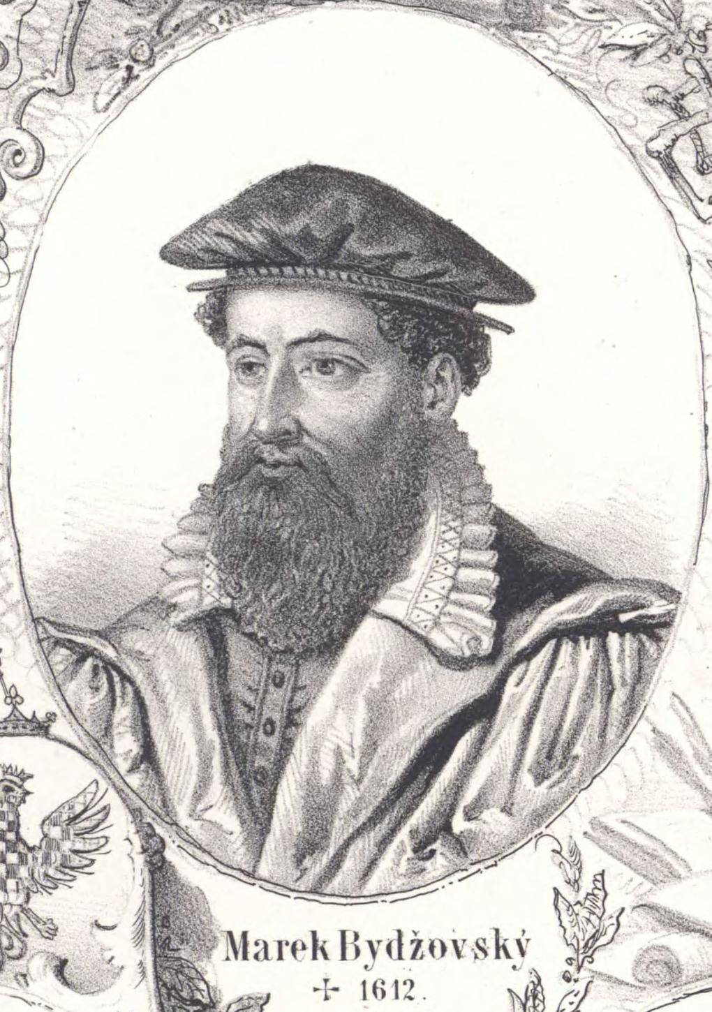 Portrait of Marek Bydžovský z Florentina (1540 - 1612), Czech mathematician and astronomer, dean of College of Art at Charles University in Prague.